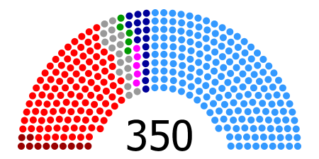 Congress of Deputies, low house of the Spanish parliament after 2011 general election.